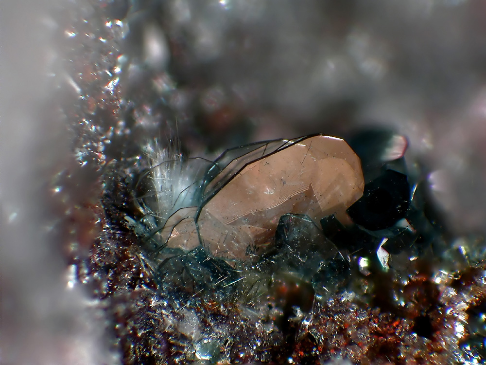 A lot of very thin Osumilite tablets together with some Mullite, image width: 2 mm - Locality: Wannenköpfe, Ochtendung, Eifel region, Germany